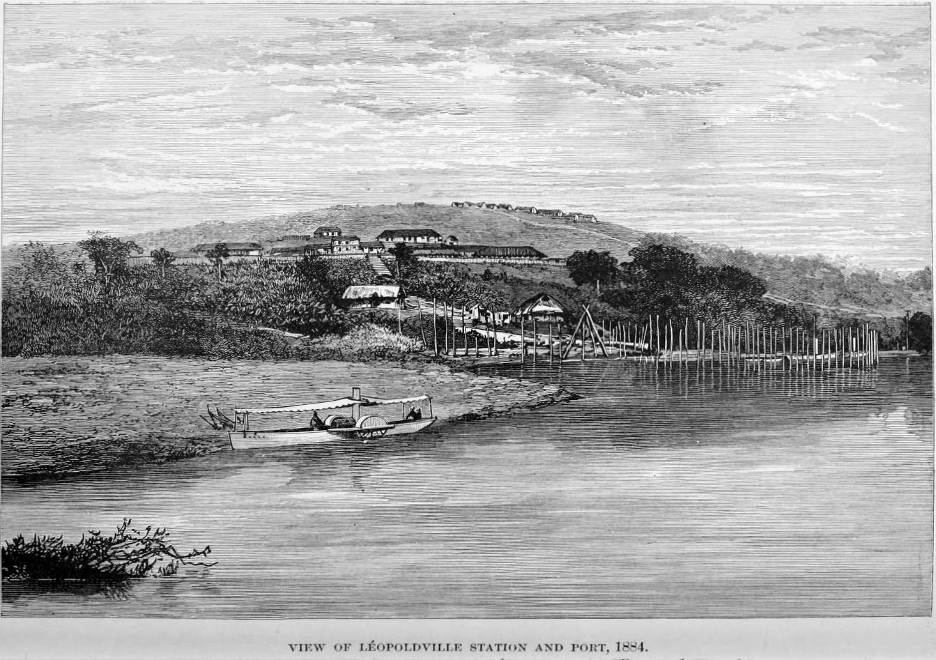 View of Leopoldville Station and Port on the Congo River, 1884. Baptist Congo-Balolo Mission on the summit of Leopold Hill. Pictures excerpted from HM Stanley's book "The Congo and the founding of its free state; a story of work and exploration (1885)".